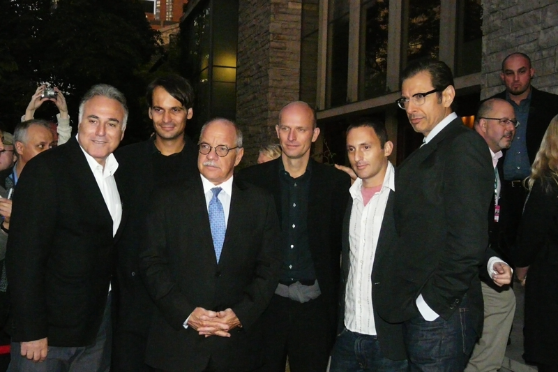 The cast and crew at The Premiere Tiff 08 Premiere of Adam Resurrected (X, X, Paul Schrader, X, Noah Stollman, Jeff Goldblum) Check out More great pics and Video at